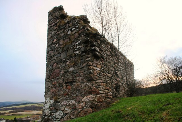 Rothes Castle Wall Looking at its most imposing ,it's not very,the remaining wall of Rothes castle onetime seat of the Leslie's.